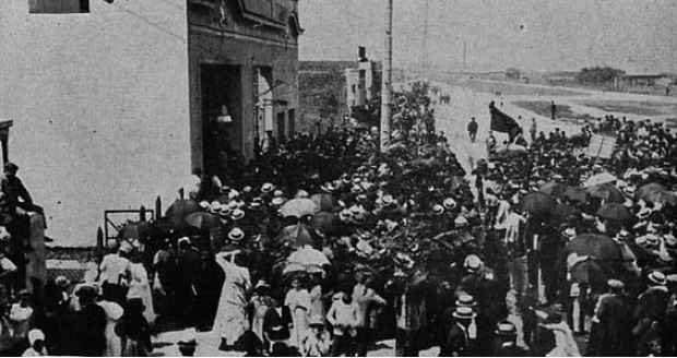 Semana Tragica 1919 - 7 de enero 1919 - Velorio de las víctimas de la masacre realizada ese día en ese lugar. En el sindicato metalurgico ubicado en Amancio Alcorta 3483, casi esquina Pepirí (Nueva Pompeya). Buenos Aires.